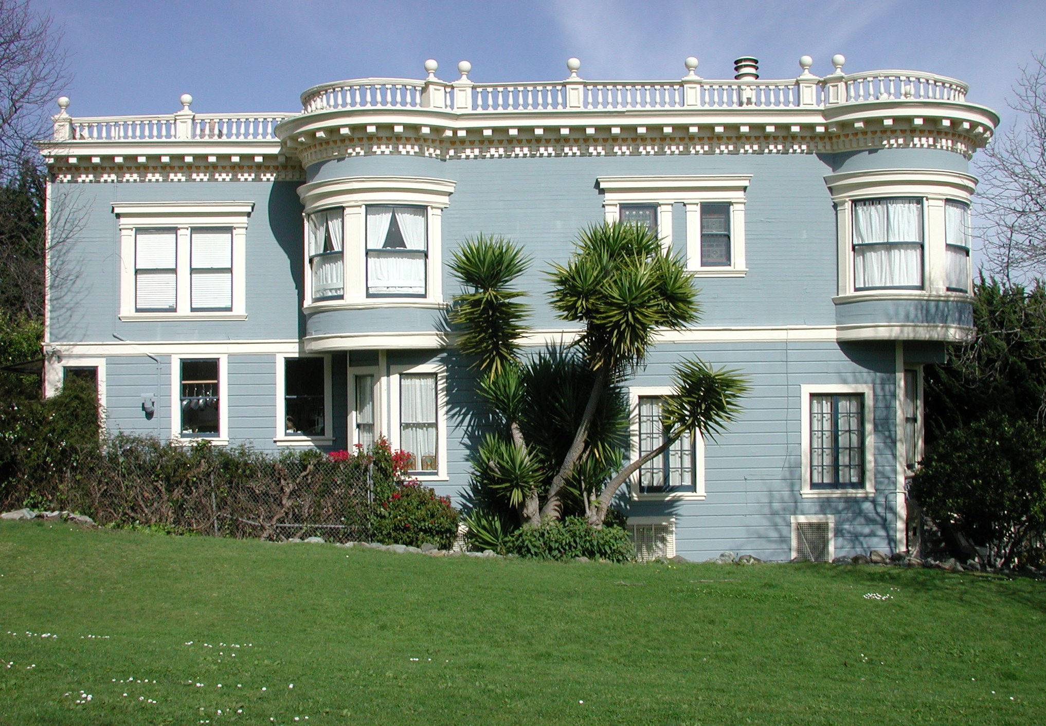 Duboce Park Landmark District — neighborhood, city park, and a San Francisco Designated Landmarks historic district.